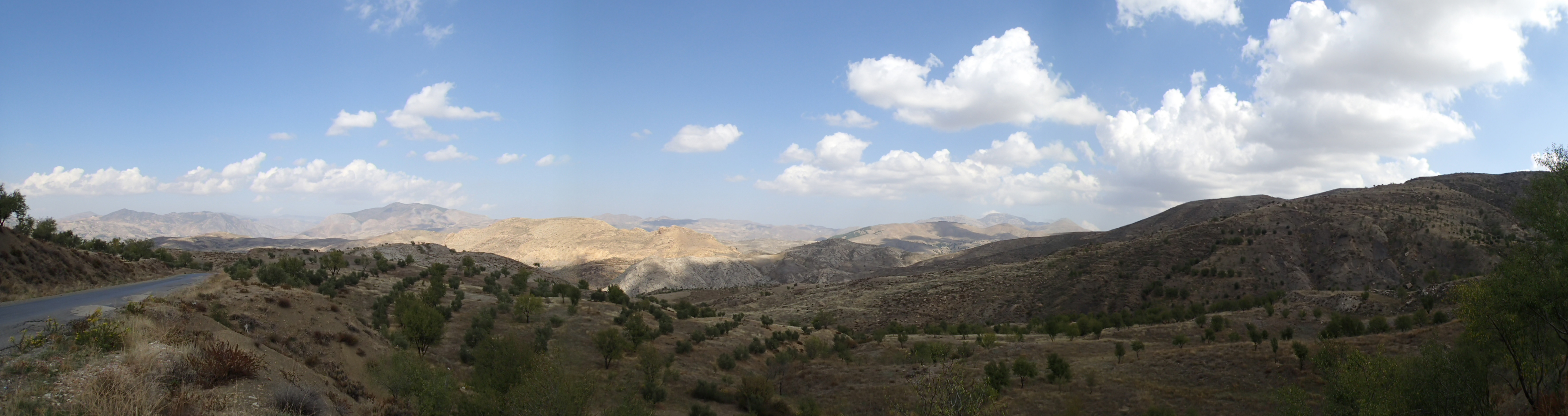 Panorama on the Igzenayen moutain range